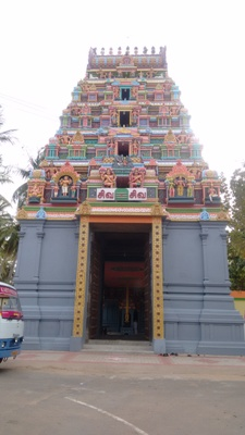 Karaikkaldharmapuramyalmurinathartemple காரைக்கால்தருமபுரம்யாழ்முரிநாதர்கோயில்